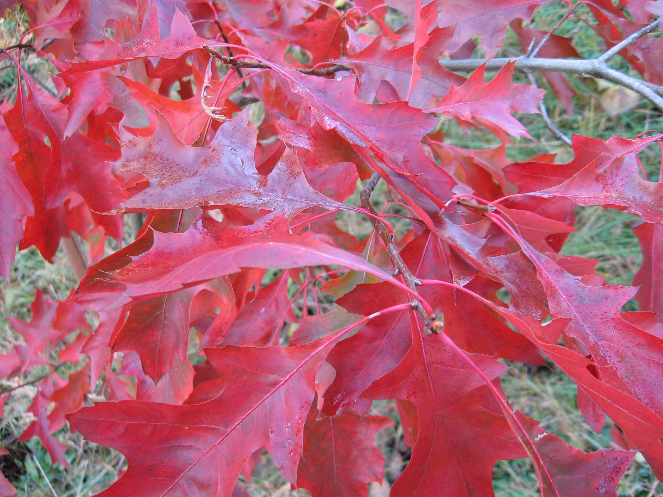 Scarlet Oak leaves